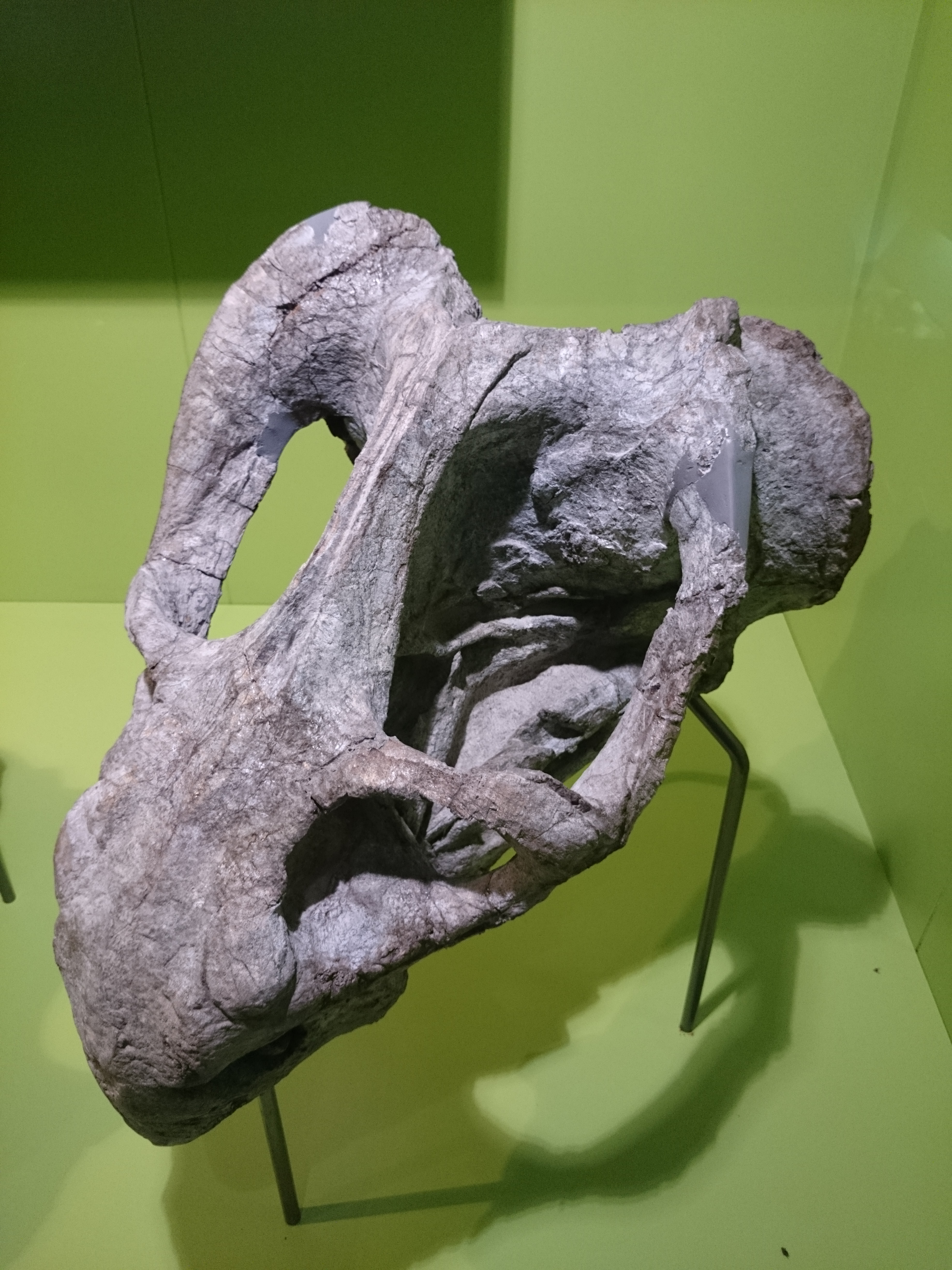 Mighty toothless one. Skull and lower jaw of a very rare dicynodont that has an unusually pointed parrot-like "beak". The pitted texture of the bone around the snout and over the lower jaws shows that these parts were covered with keratin, similar to tortoises today. Dinanomodon's parrotbeak was probably an adaptation to browsing rather than grazing. It would have been useful for grabbing Glossopteris branches and holding them against the tusks. Then, with a sideways movement of the head, the leaves could be stripped off and eaten, leaving the branches behind to carry on growing